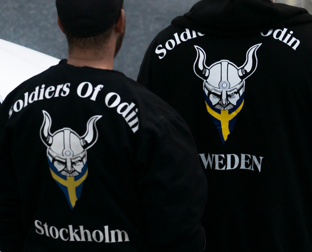 Soldiers of Odin in Stockholm 2016.